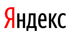 Logo of Yandex.